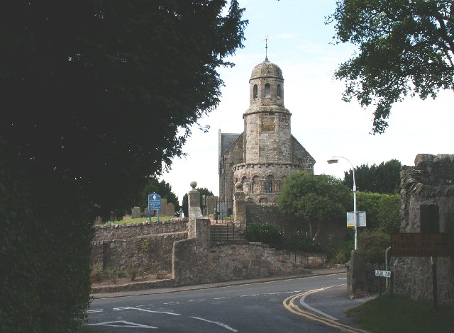 St Athernase Church, Leuchars, Fife